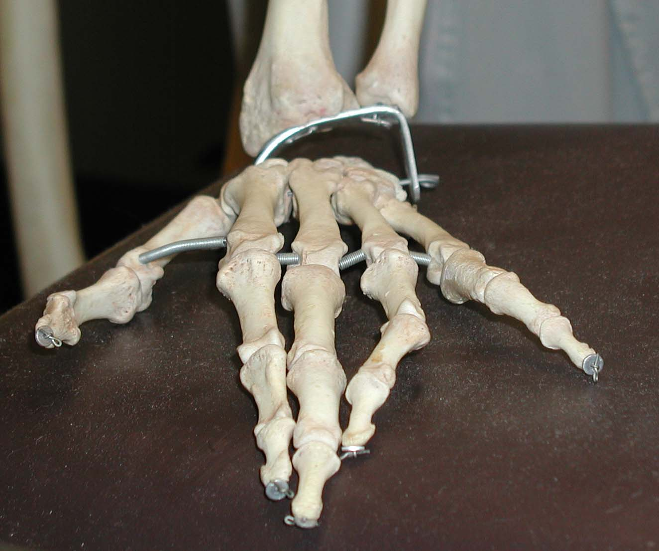 Picture of the bones in a human hand (from an authentic human skeleton). Taken by me on March 25, 2004.